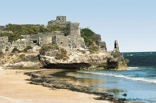 Picture of Gondereshe